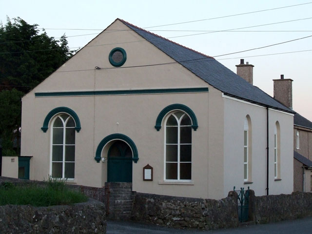 Siloam Chapel in Talwrn. Siloam Chapel in Talwrn was built in 1841, and rebuilt in 1880